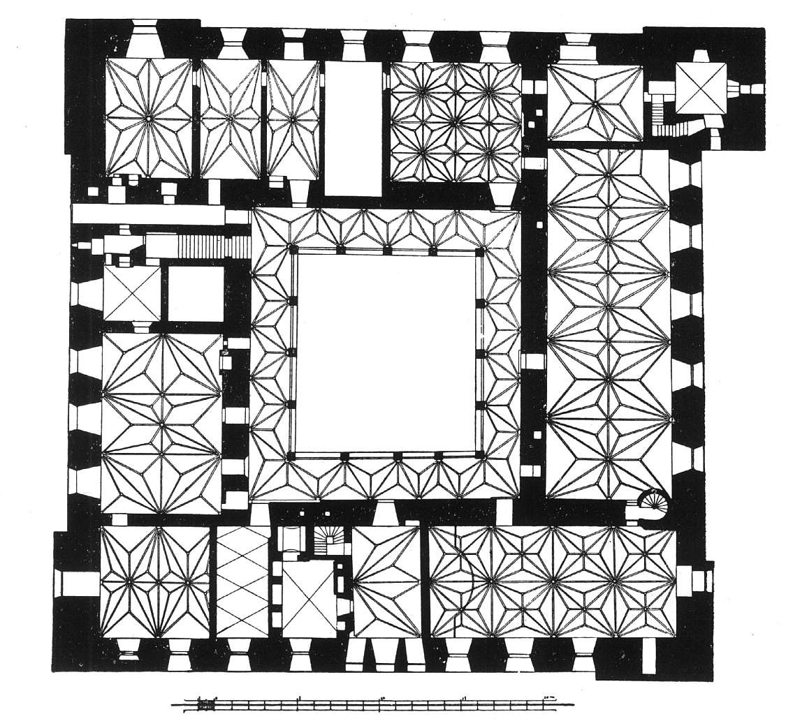 Lidzbark Warmiński, Plan